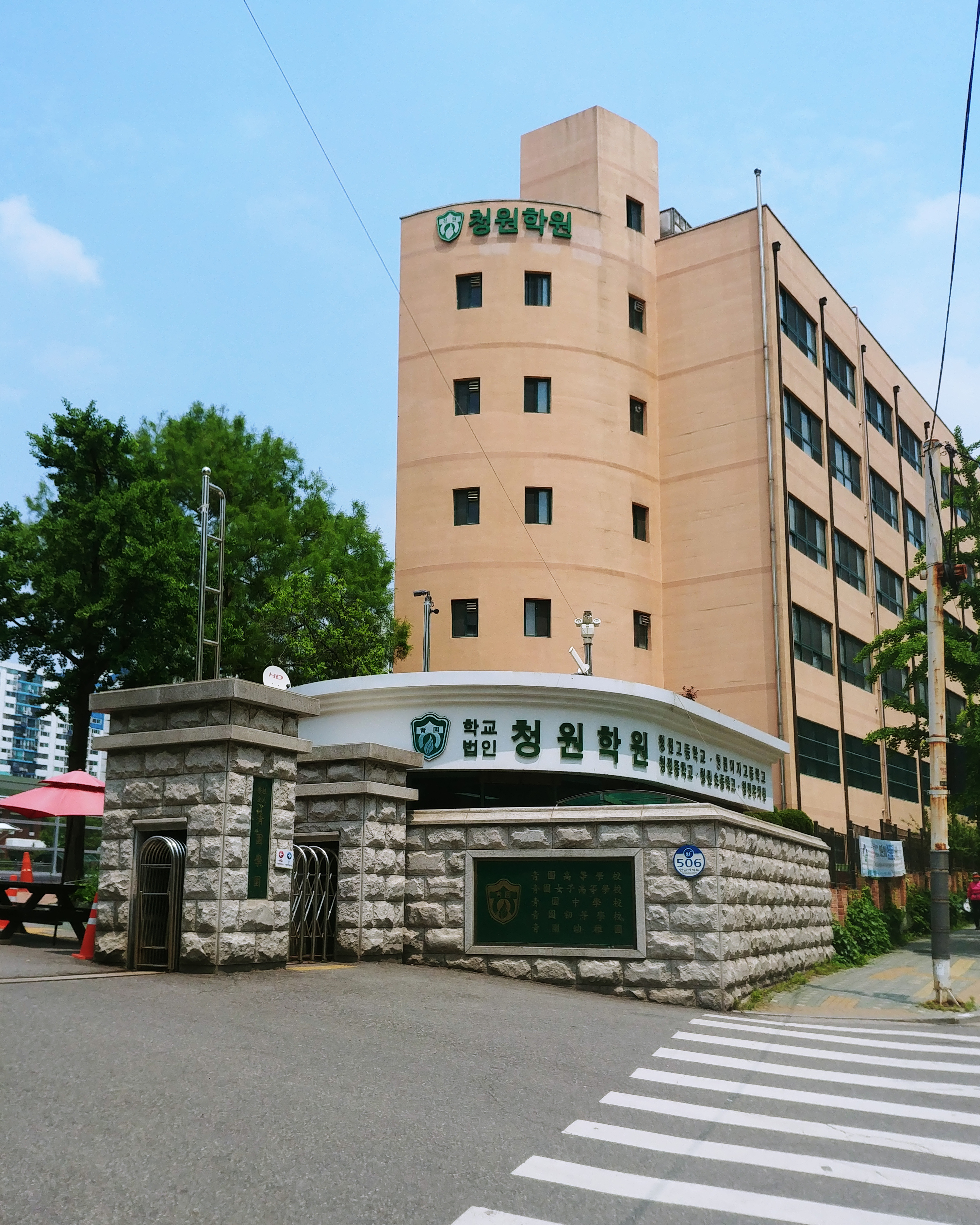 Cheongwon Academy, Republic of Korea